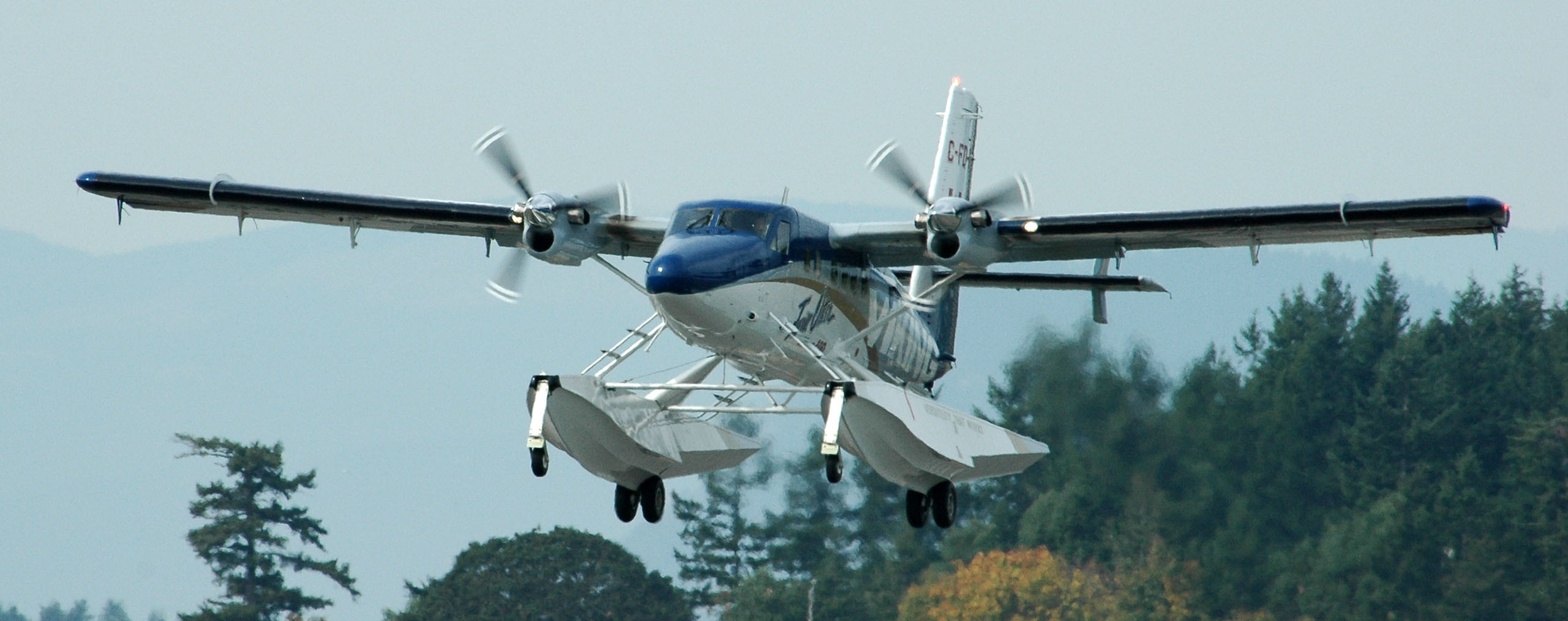 First flight of the new Series 400 Twin Otter, manufactured by Viking Air (the type certificate holder). Airplane is technical demonstrator C-FDHT. Taken at Victoria International Airport (CYYJ), October 1, 2008.